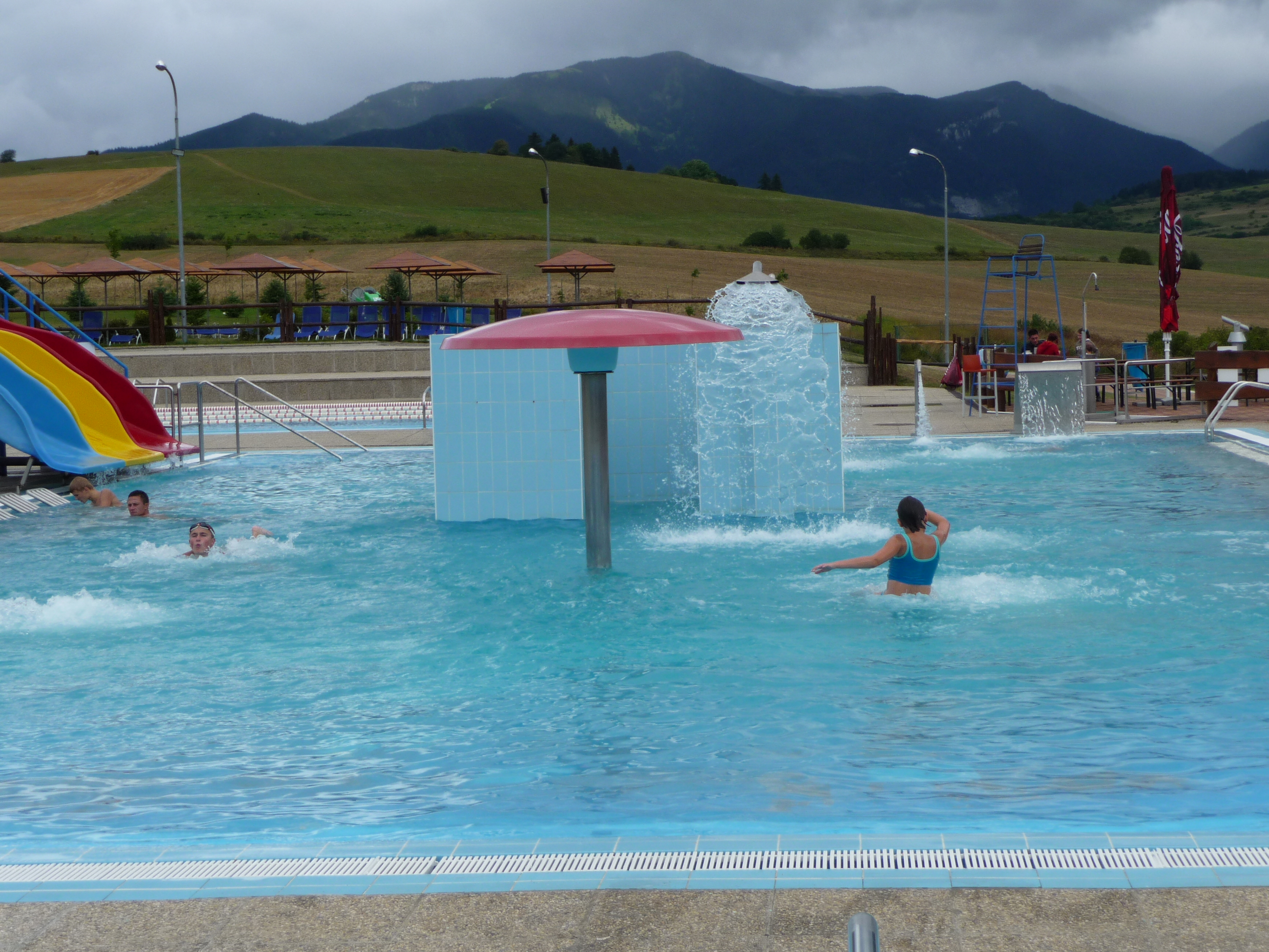 Water park Tatralandia in Slovakia